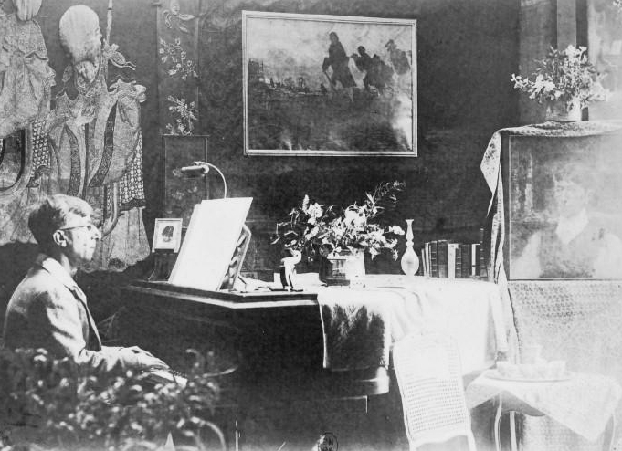 French composer Maurice Delage (1879-1961) at the paino